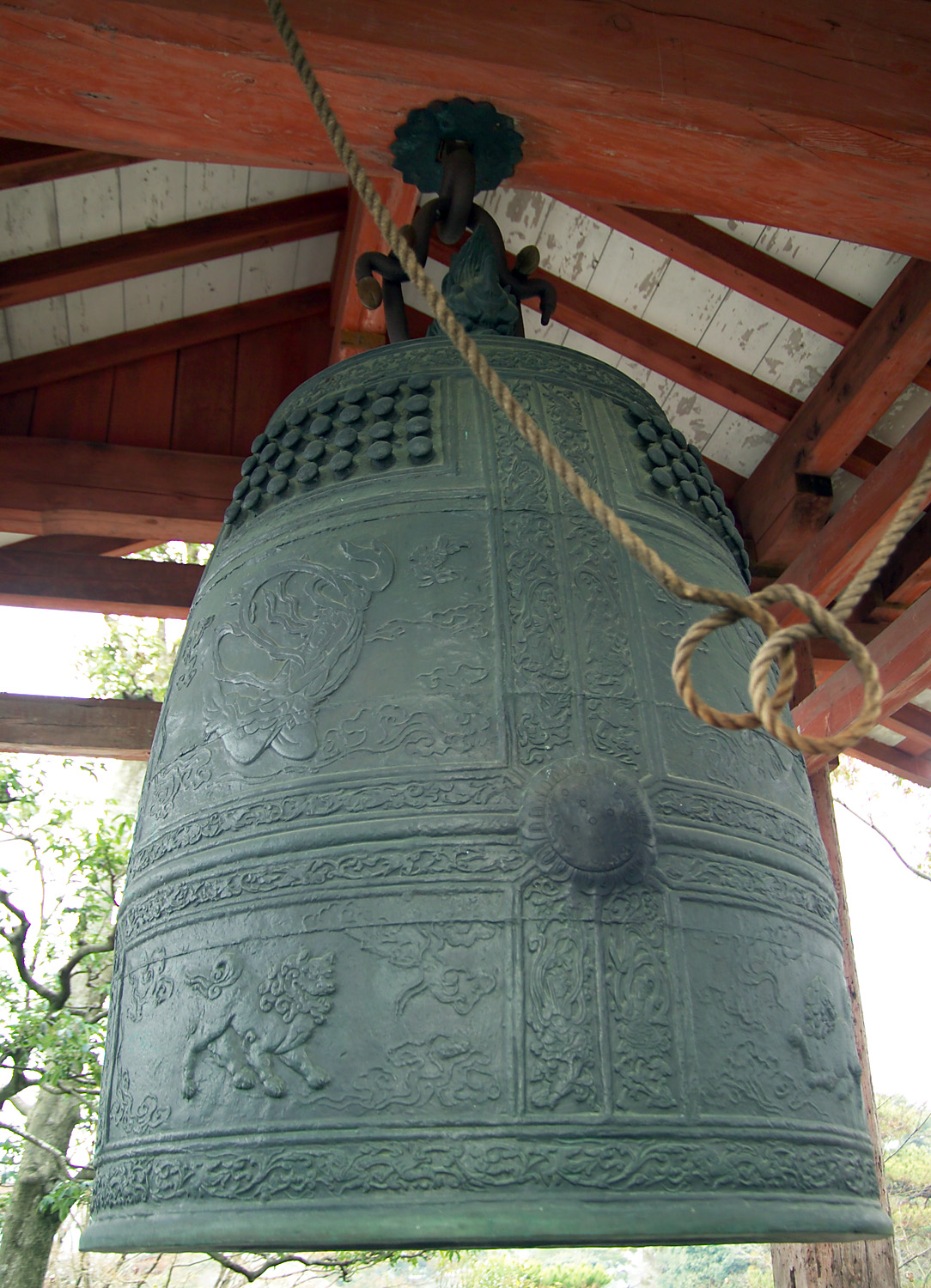 This is the bronze bell of the Byodo-in, a temple in the city of Uji, Kyoto prefecture. I took the photo and contribute my rights in the file to the public domain; individuals and organizations retain rights to images in the file.